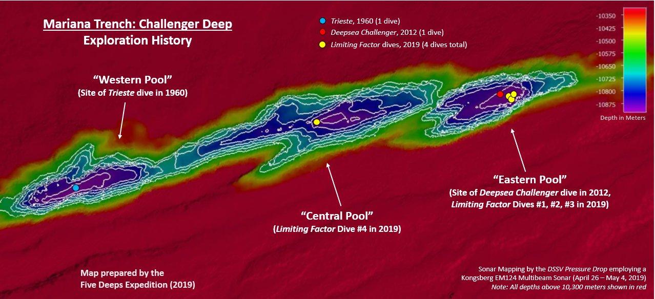 This map was created by the DSSV Pressure Drop's Kngsberg EM124 sonar system over the course of two weeks to map the Challenger Deep in the Marianas Trench. The Deep consists of three "pools" of varying depth with the central pool being the most shallow, then the western one, with the eastern pool measured to be the deepest at 10,925 meters. That depth was measured using the manned submersible DSV Limiting Factor on April 28 - May 3, 2019 as part of the Five Deeps Expedition.